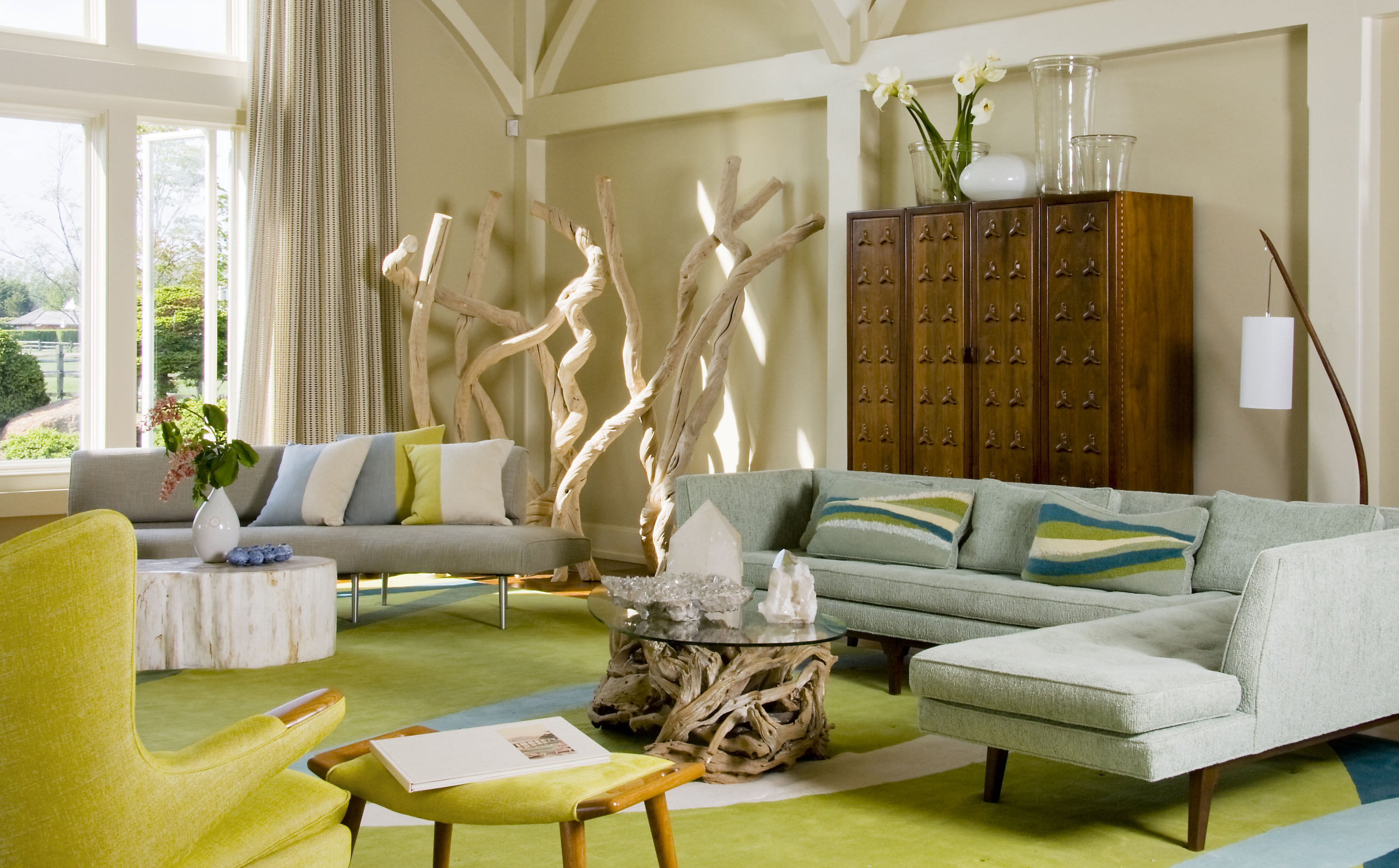 Beach Hampton House